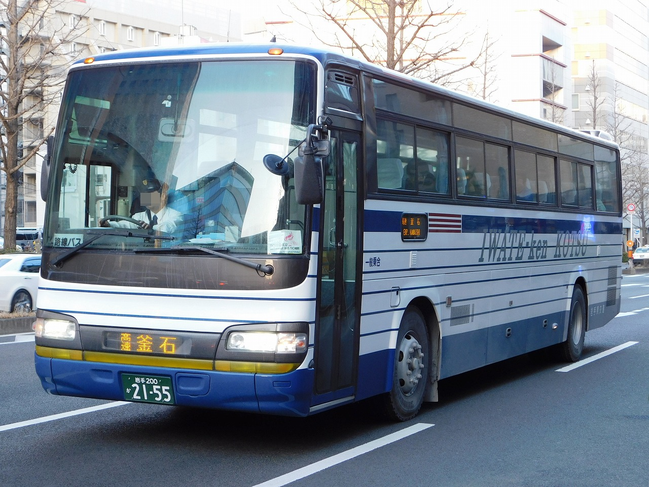 Iwateken Kotsu Hino S'elega R FD (KL-RU4FSEA)highwaybus "Kamaishi,Tono - Sendai"